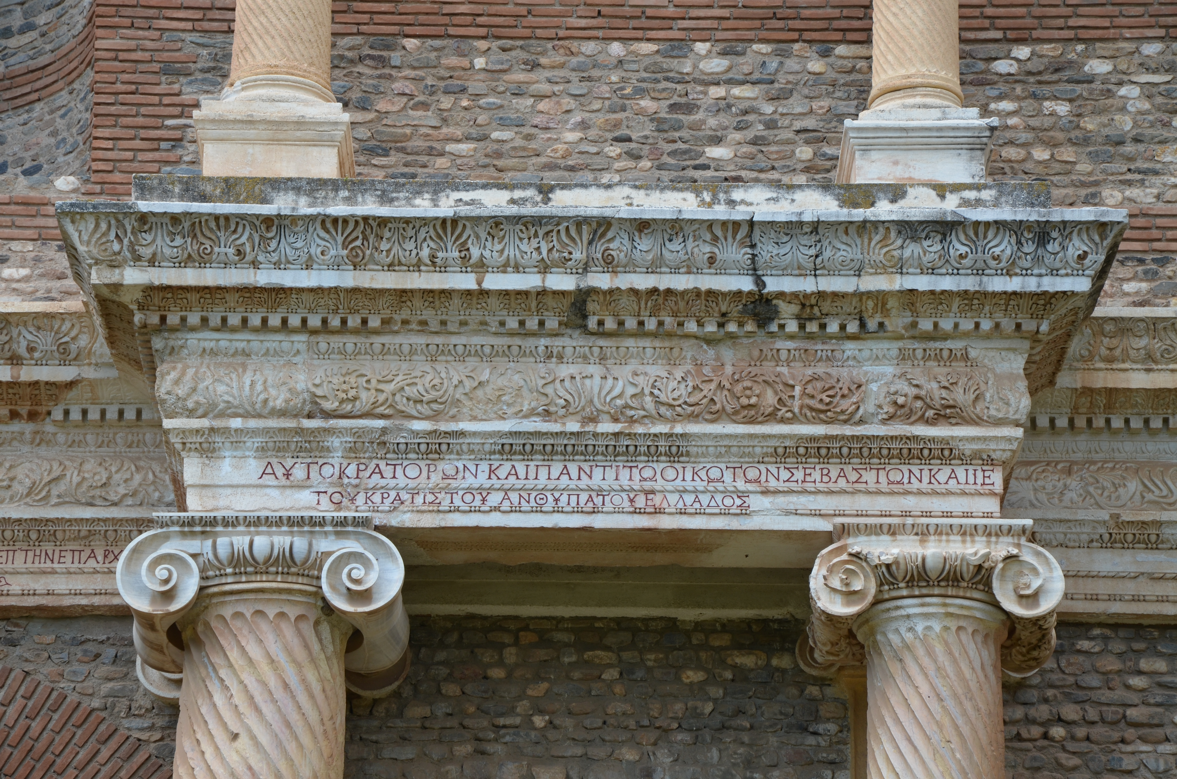 The Bath-Gymnasium complex at Sardis, late 2nd - early 3rd century AD, Sardis, Turkey